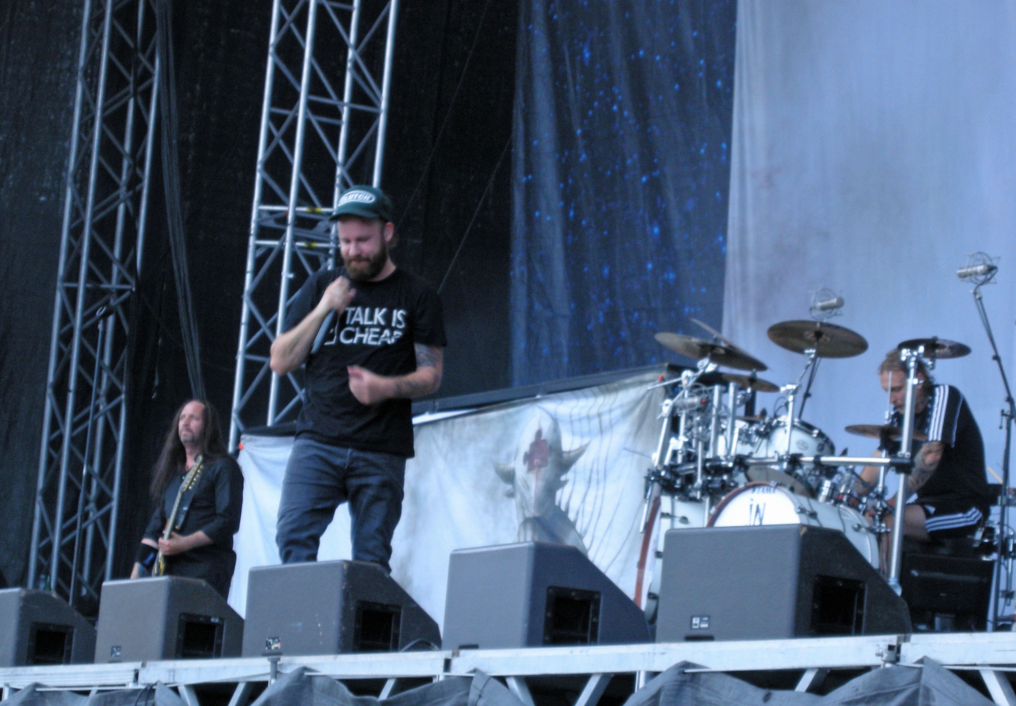 In Flames at Sonisphere Festival, Stockholm, Sweden 2011. Niclas Engelin, Anders Fridén and Daniel Svensson